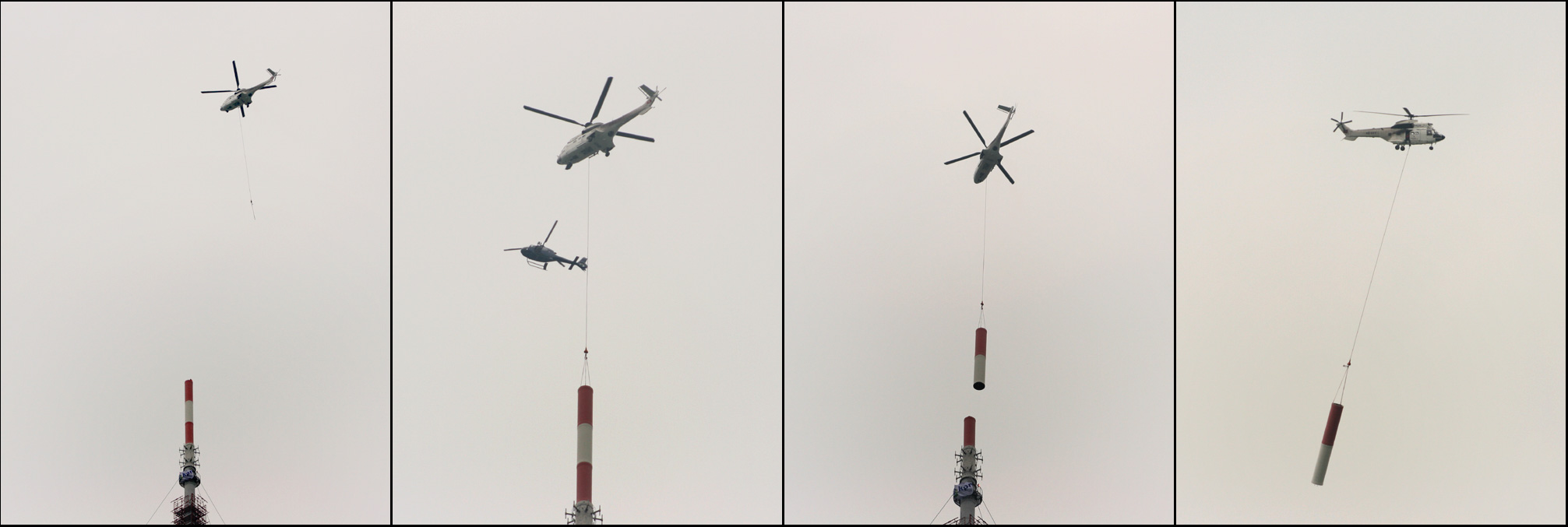 A Super Puma helicopter lifts the old analog tv antenna from the Gerbrandy tv tower in IJsselstein near Utrecht, The Netherlands.